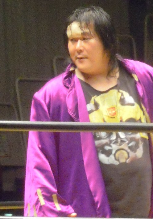 Zainichi-Korean professional wrestler, Kintaro Kanemura. Feb 3 2013, ZERO1 Korakuen Hall.